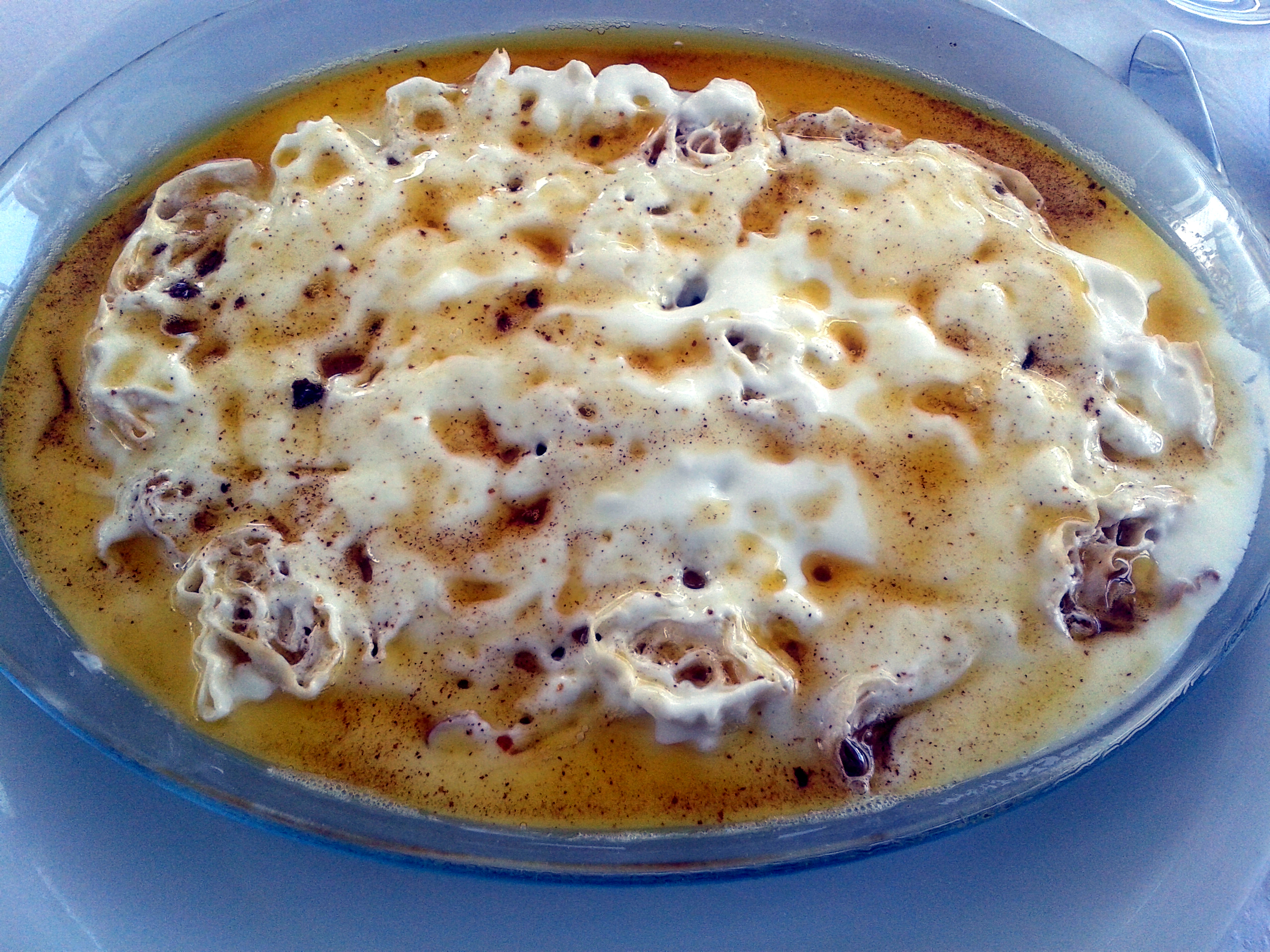 Siron in an oval plate.